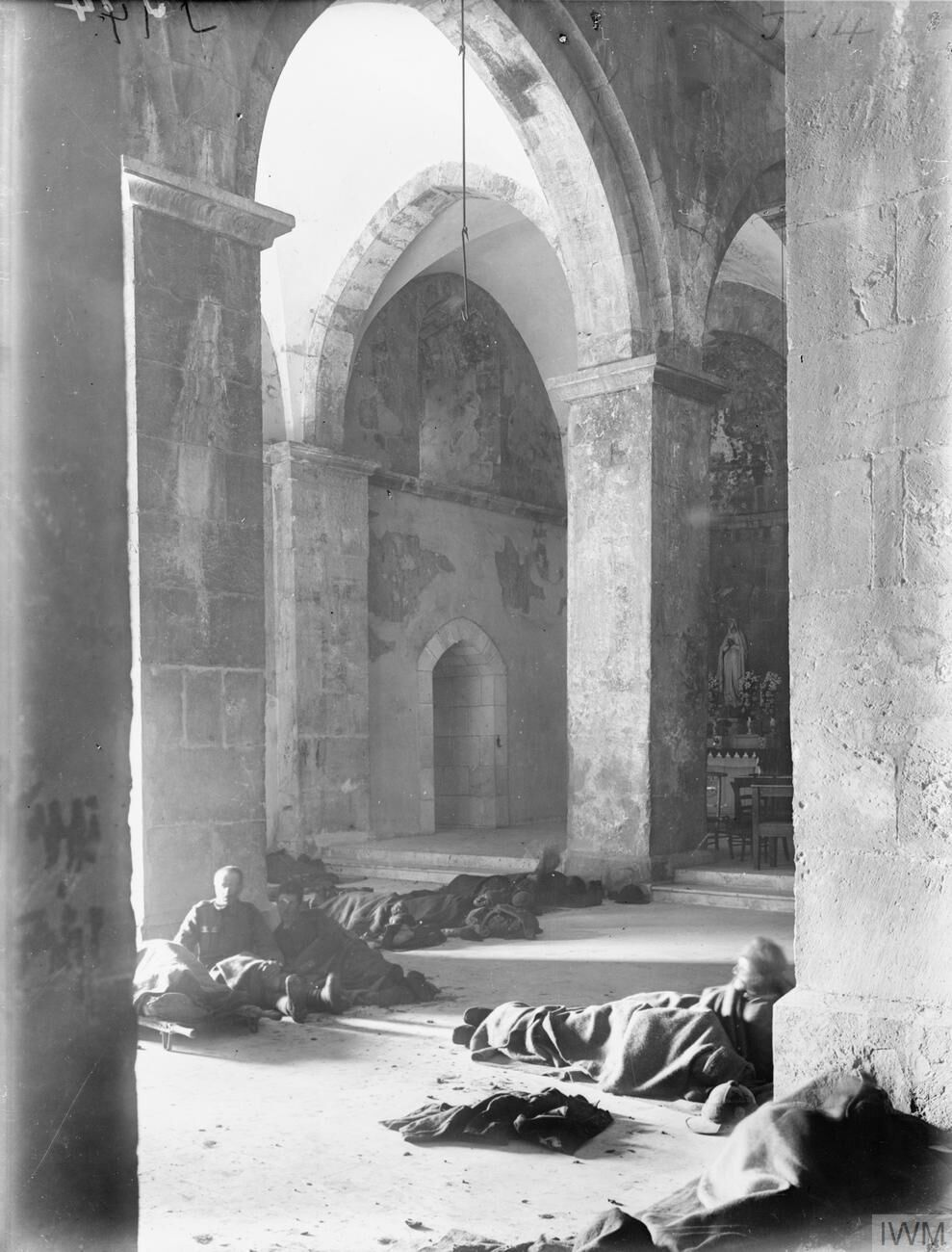 IWM caption : The Advance across the Desert: Wounded of the 5th Battalion Somerset Light Infantry and 4th Battalion Wiltshire Regiment in the monastery at Kuryet el Enab which the 75th Division took on 20 November 1917. The monastery was used as a dressing station.